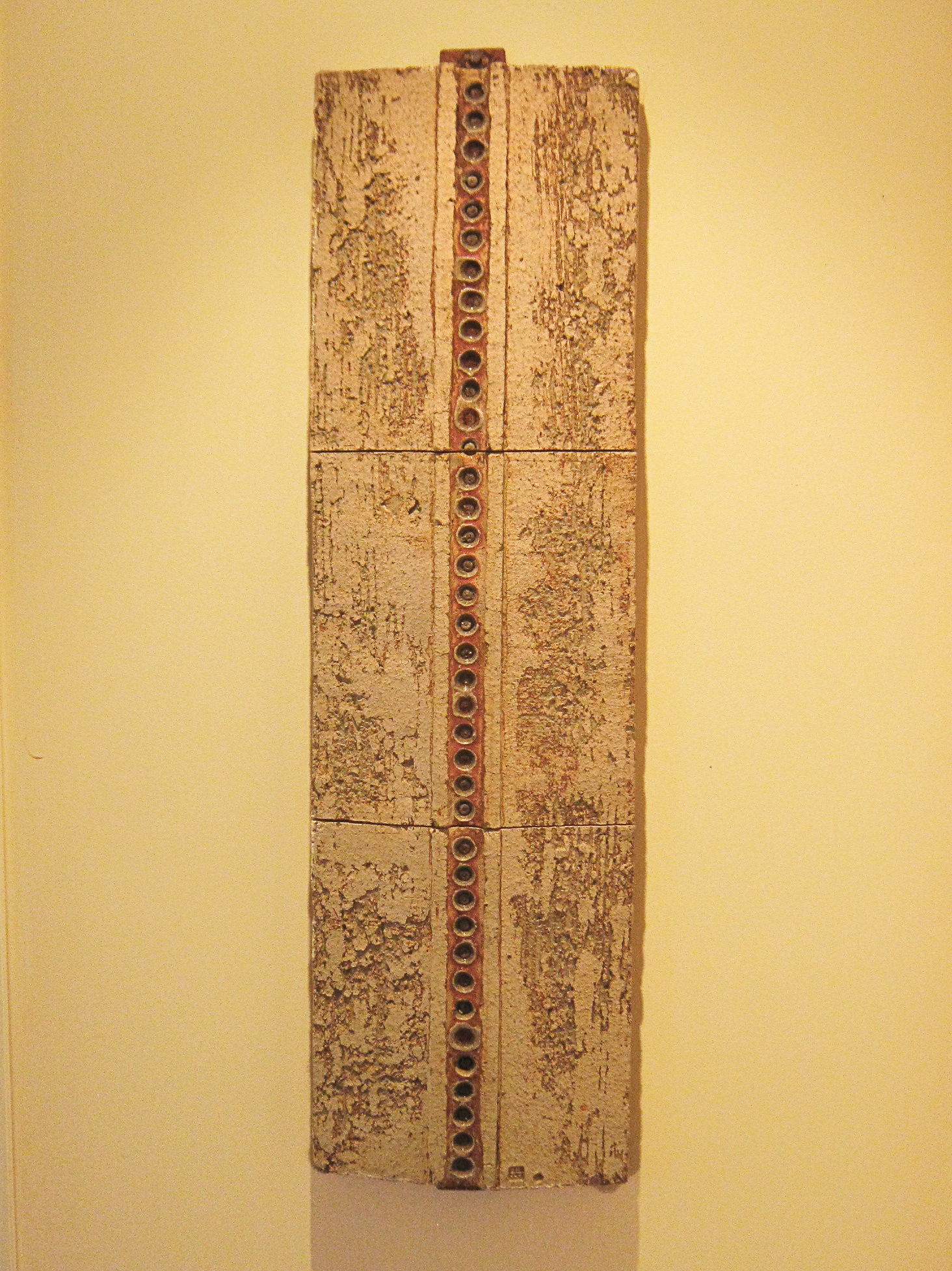 Vertical three-panel wall plaque by Ian Sprague; photographed in a private collection at Enfield Victoria